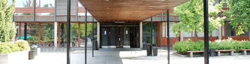 Science Library - University of Oslo